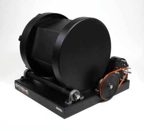 17 lb Ball Mill with hexagonal drum